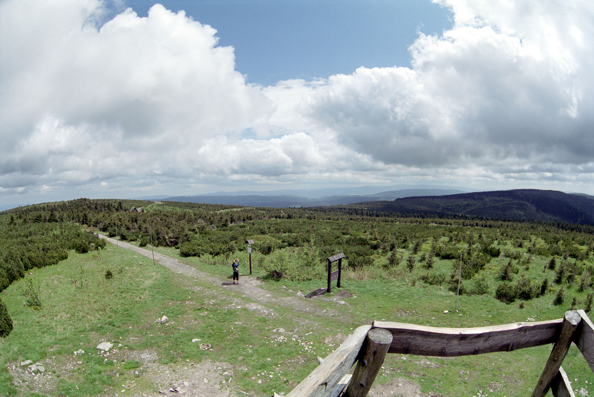 own picture, taken in spring 2006 view from the mountain Velká Deštná in Orlické Hory in Czech Republic in direction south-east